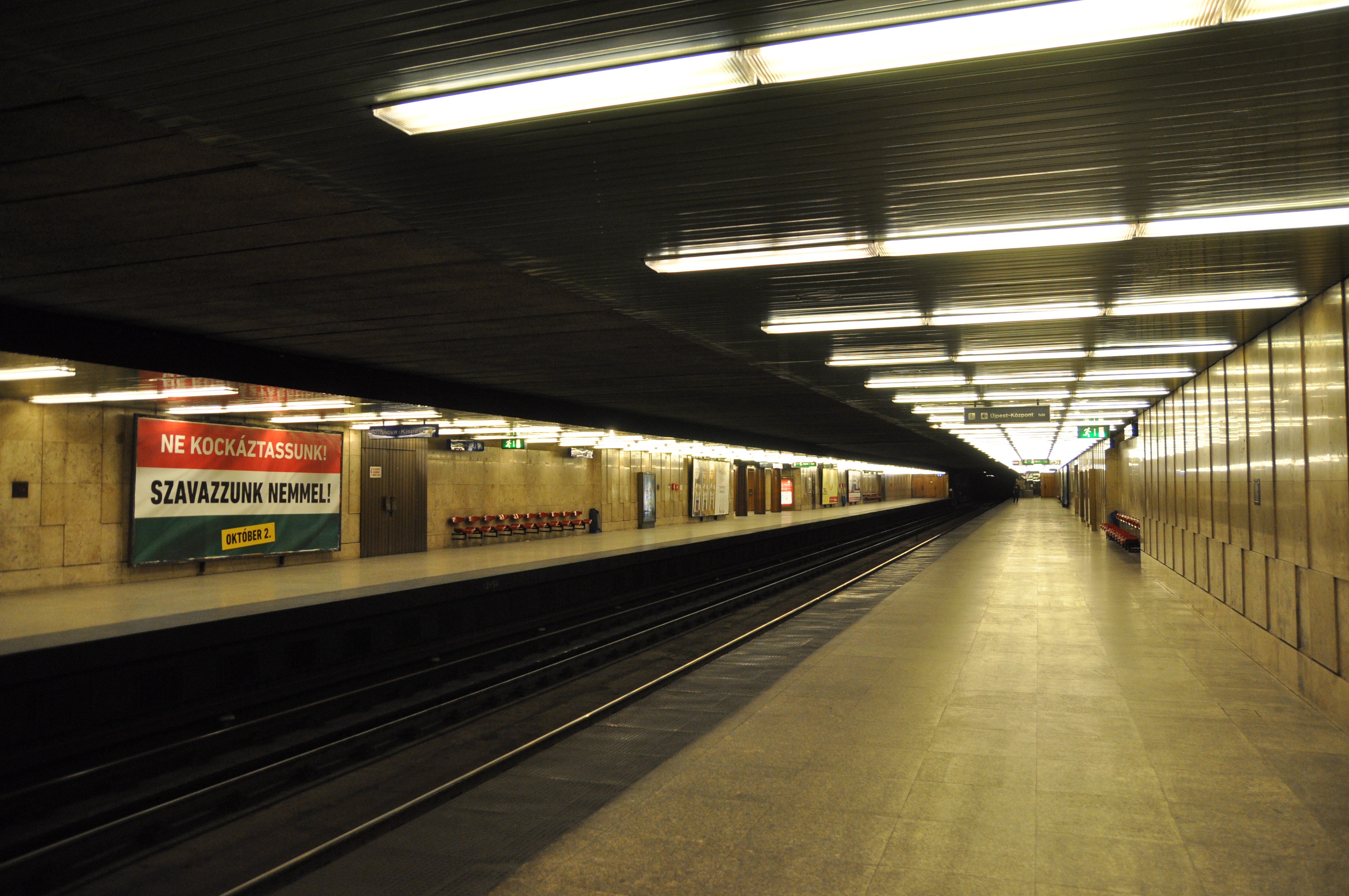 Budapest, metró 3, Ecseri út